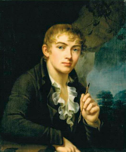 Rudolph Suhrlandt: Selbstporträt, um 1810 Unbezeichnet